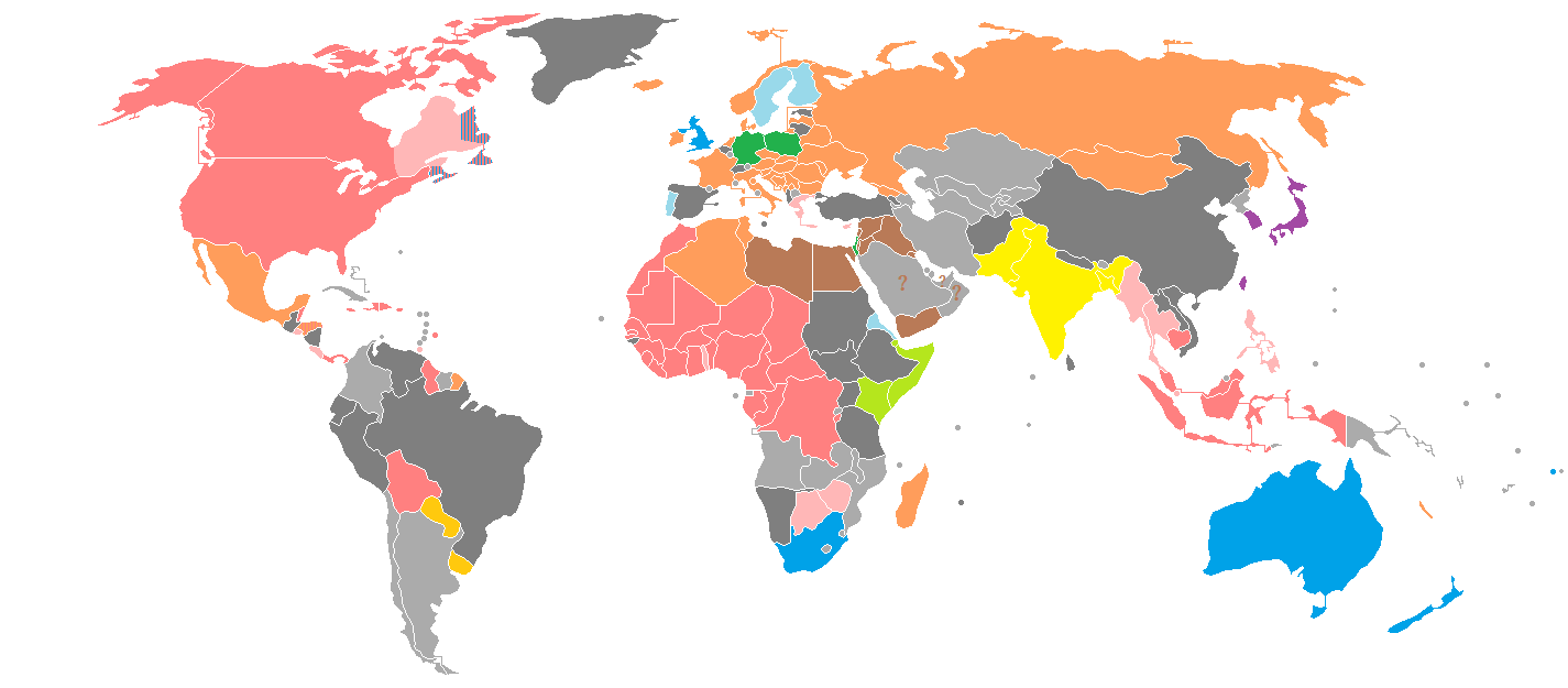 Sign language families around the world. Orange: French. Pink: ASL (dialect of French). Light pink: mix with ASL. Blue: BANZL. Azure: Swedish. Purple: Japanese. Green: German. Brown: Arab. Yellow: Indian. Chartreuse: Kenyan. Ochre: Uru/Paraguayan. Dark grey: Isolates. Light grey: unclassified or unknown.